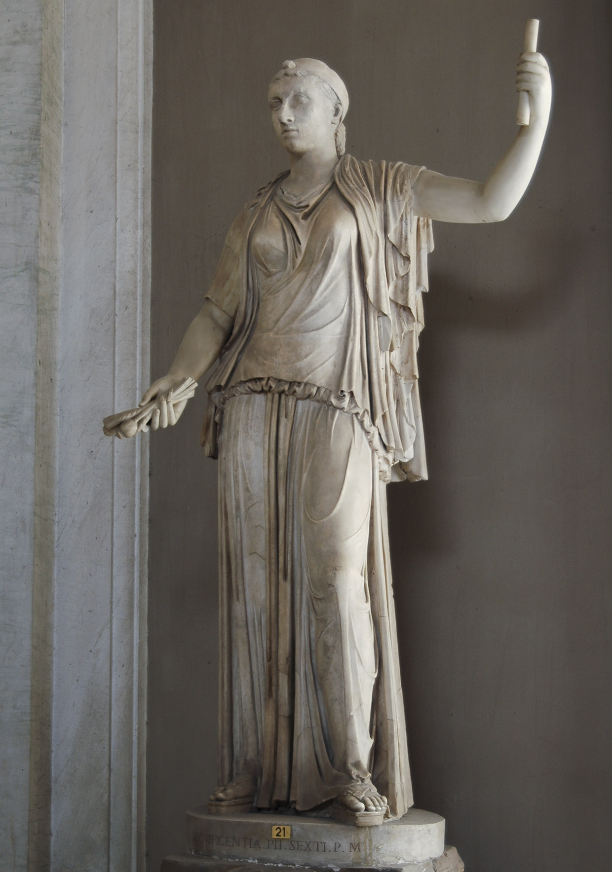 Statue presumable portraying Cleopatra VII. Marble. The statue is a Roman copy of a Greek original of the end of the 5th cent. BCE. The head is plaster cast from ancient head. The statue, which apparently depicts Cleopatra VII, was allegedly found on the Via Cassia near the so-called "Tomba di Nerone." It's identification as Cleopatra VII, by virtue of the facial features, "melon" hairstyle, Hellenistic royal diadem, and similarity to coinage portraits of her reign is outlined in the following sources: * G. Lippold. Die Skulpturen des Vaticanischen Museums. Band III 1, Text. Walter de Gruyter, Berlin/Leipzig, 1936. P. 169—171, cat. no. 567. * Curtius, L. "Ikonographische Beitrage zum Portrar der romischen Republik und der Julisch-Claudischen Familie." RM 48 (1933): 182-243. 184 ff. Abb. 3 Taf. 25—27. * Raia, Ann R.; Sebesta, Judith Lynn (September 2017) The World of State[1], College of New Rochelle Inv. No. 179. Rome, Vatican Museums, Pius-Clementine Museum. Photo by Sergey Sosnovskiy (CC BY-SA 4.0).